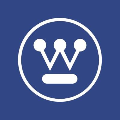 Westinghouse Design Mark